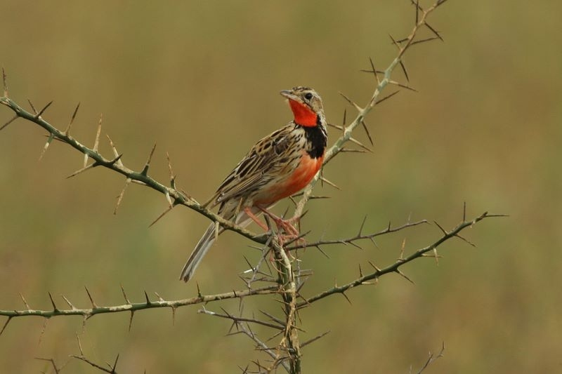 A Rosy-throated Longclaw in East Africa (probably Tanzania).